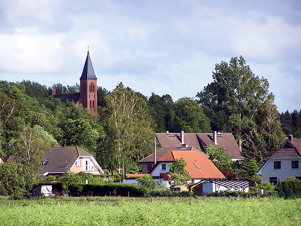 View Sehlen on the island of Ruegen in the summer of 2009.